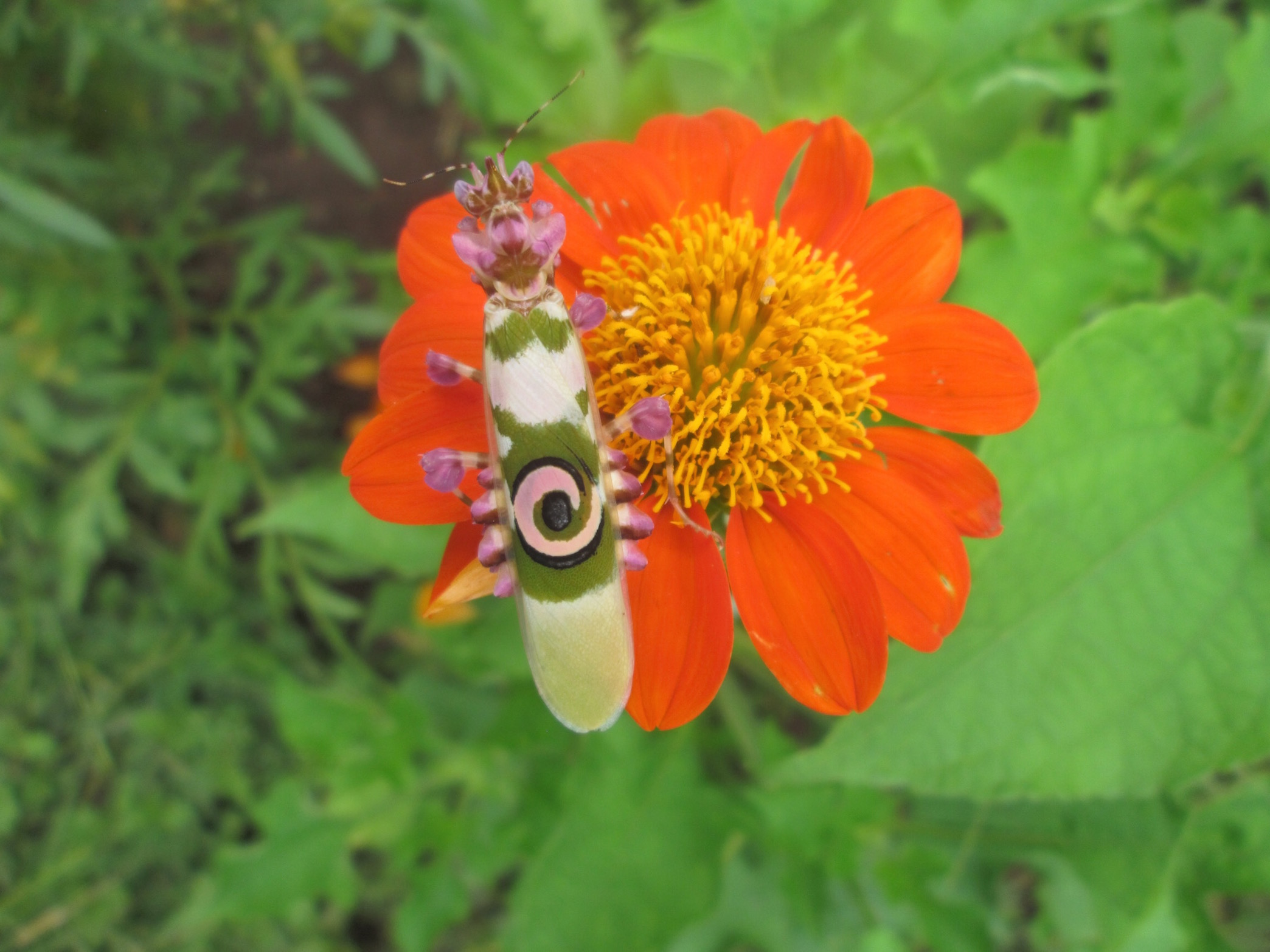 The image is a zinnia with this Spiny flower mantis settled on it. I took the picture in March (beginning rainy season) in Moshi, Tanzania